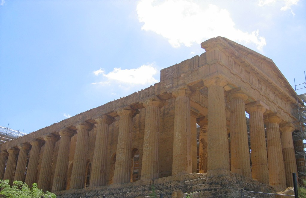 Agrigento (Sicily, Italy). Temple of Concordia.